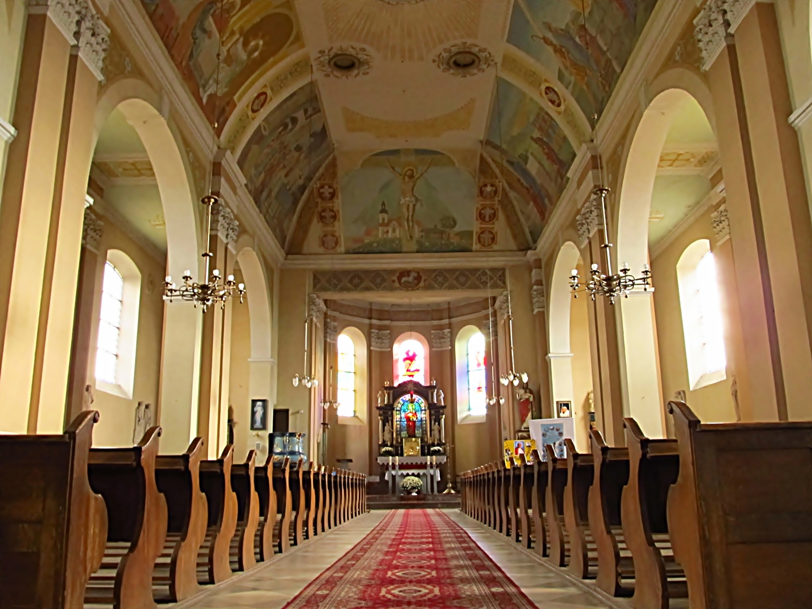 The interior of the church in Pinczynie